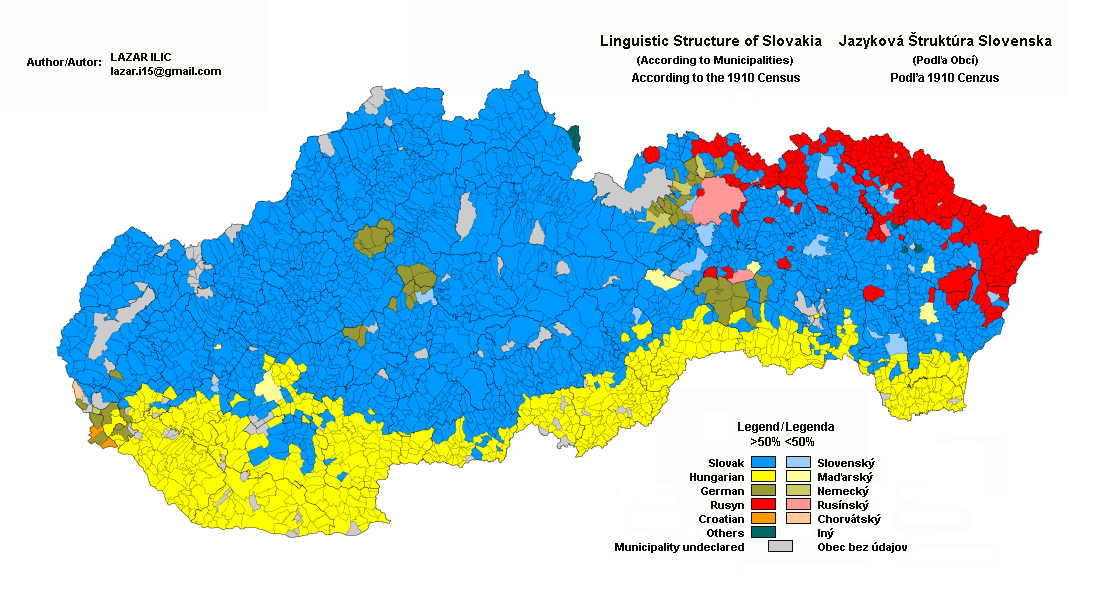 This is a linguistic map of Slovakia. It is made according to 1910 census data, showing language structure.